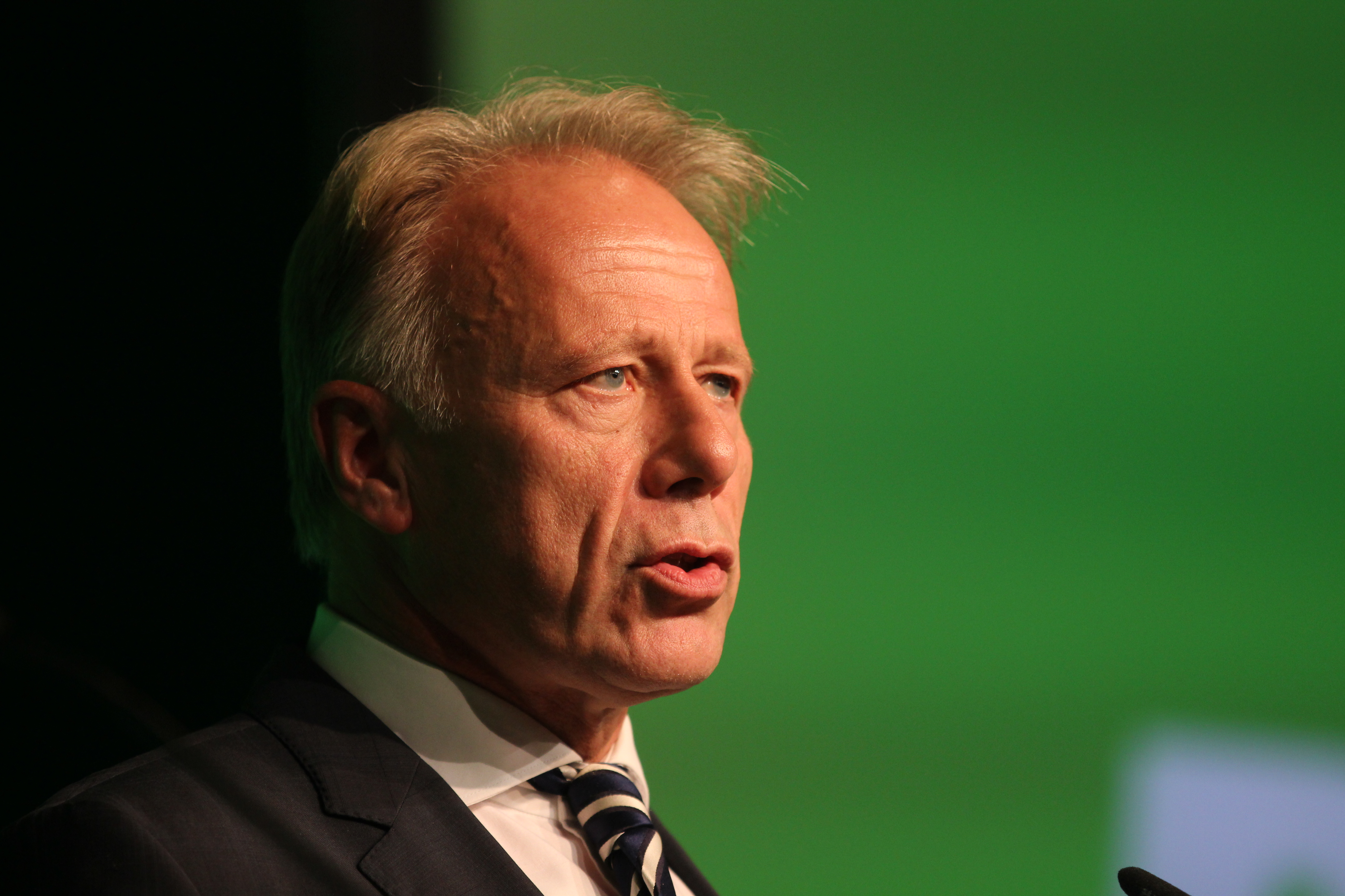 The federal election party Alliance '90/The Greens for the parliamentary election in 2013 Jürgen Trittin, Jürgen Trittin, German politician, MdB, Minister for the Environment